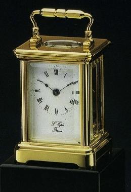 L'Epée Officer Pendulums